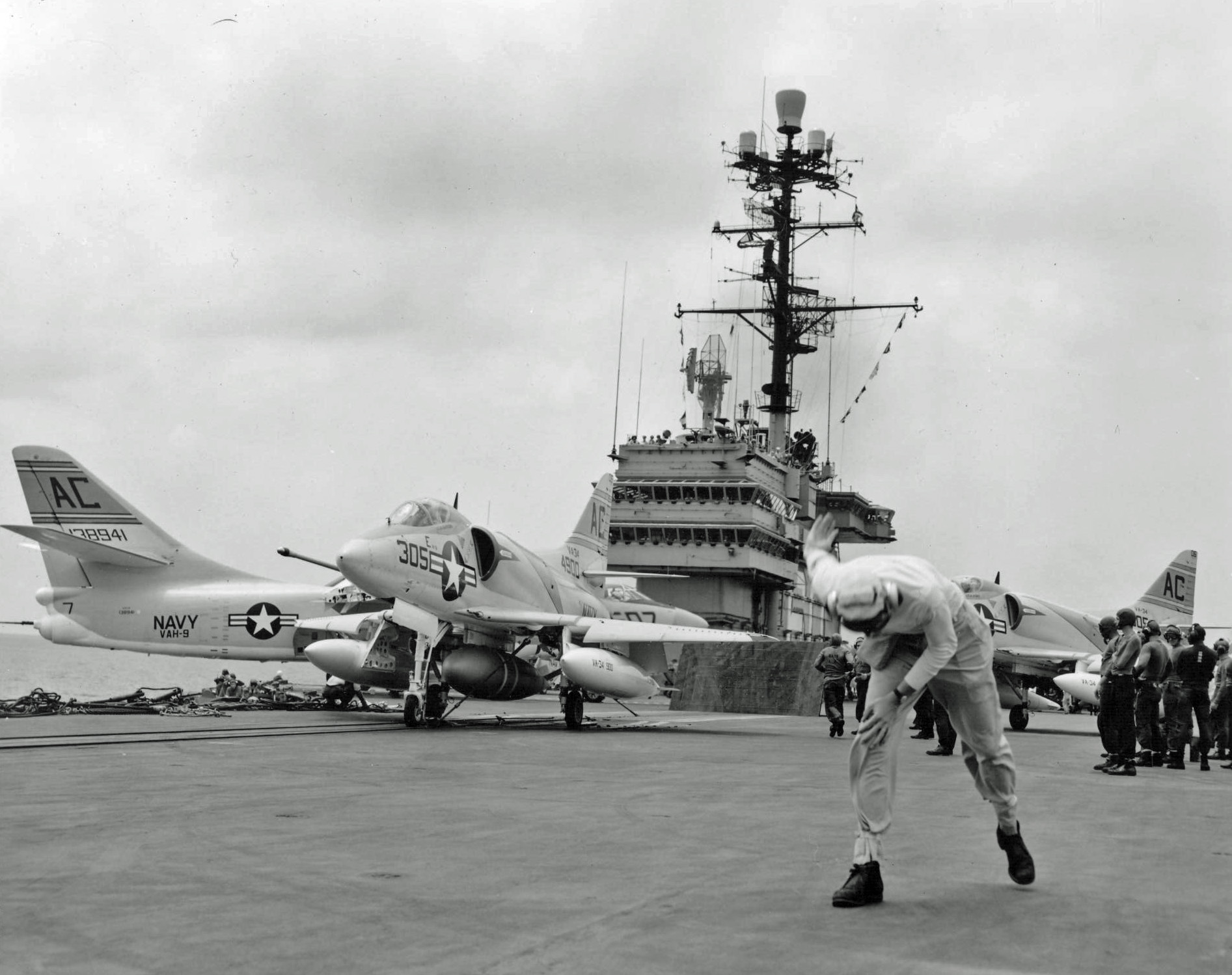 A U.S. Navy Douglas A4D-2 Skyhawk (BuNo 144900) of VA-34 Blue Blasters armed with an Mk 7 nuclear weapon prepares to launch from the aircraft carrier USS Saratoga (CVA-60). VA-34 was assigned to Carrier Air Group 3 (CVG-3) aboard the Saratoga flying the A4D-2 (after 1962 A-4B) between 1959 and 1962.